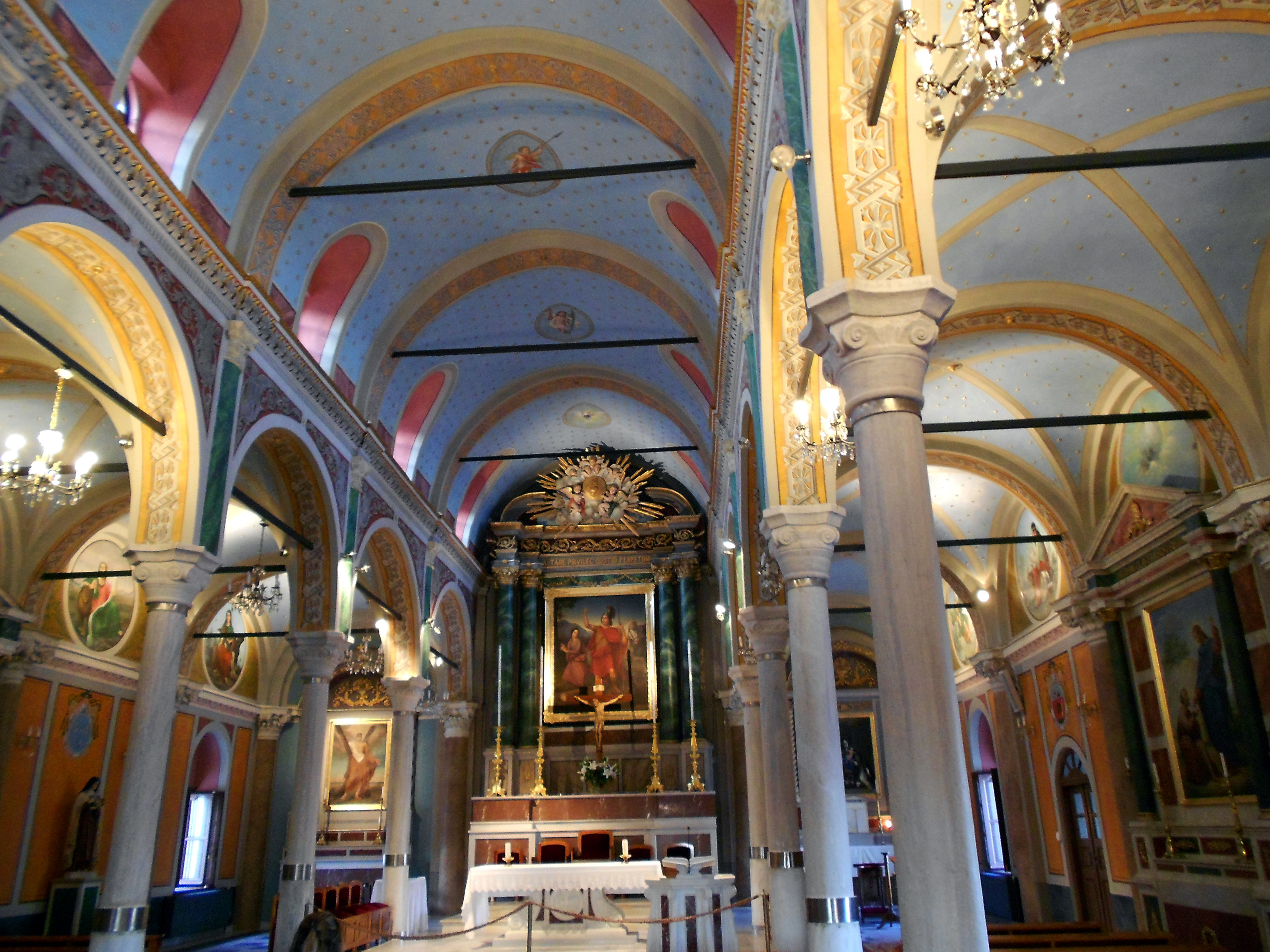 View of the inside of Saint George's Cathedral in Syros.